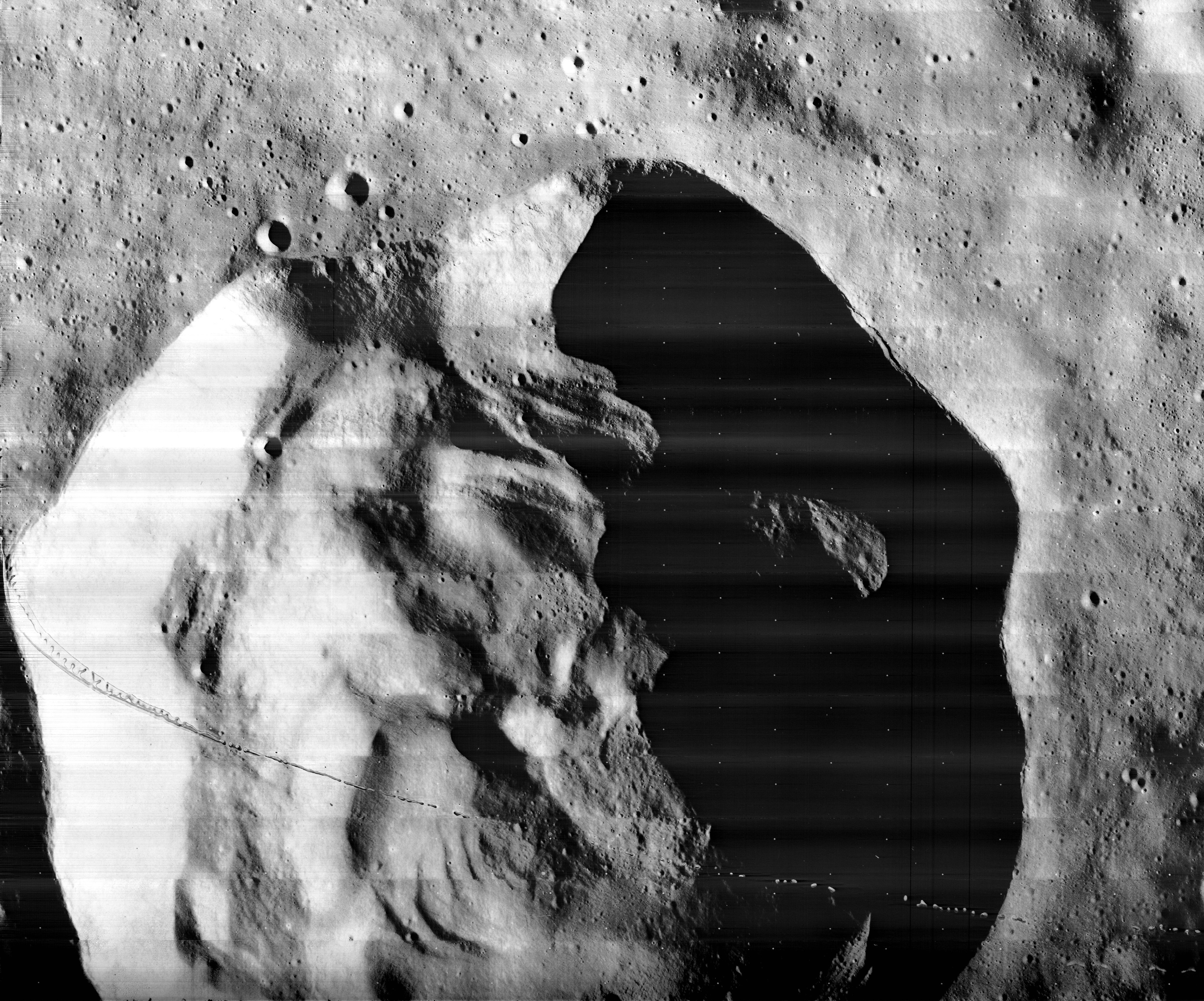 Most of Mösting, on the moon. Curved row of dots is blemish on original.